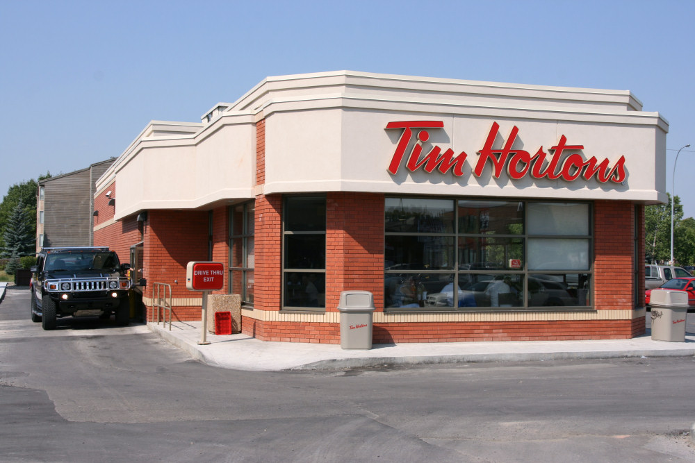 Tim Hortons restaurant. Calgary, Alberta, Canada.